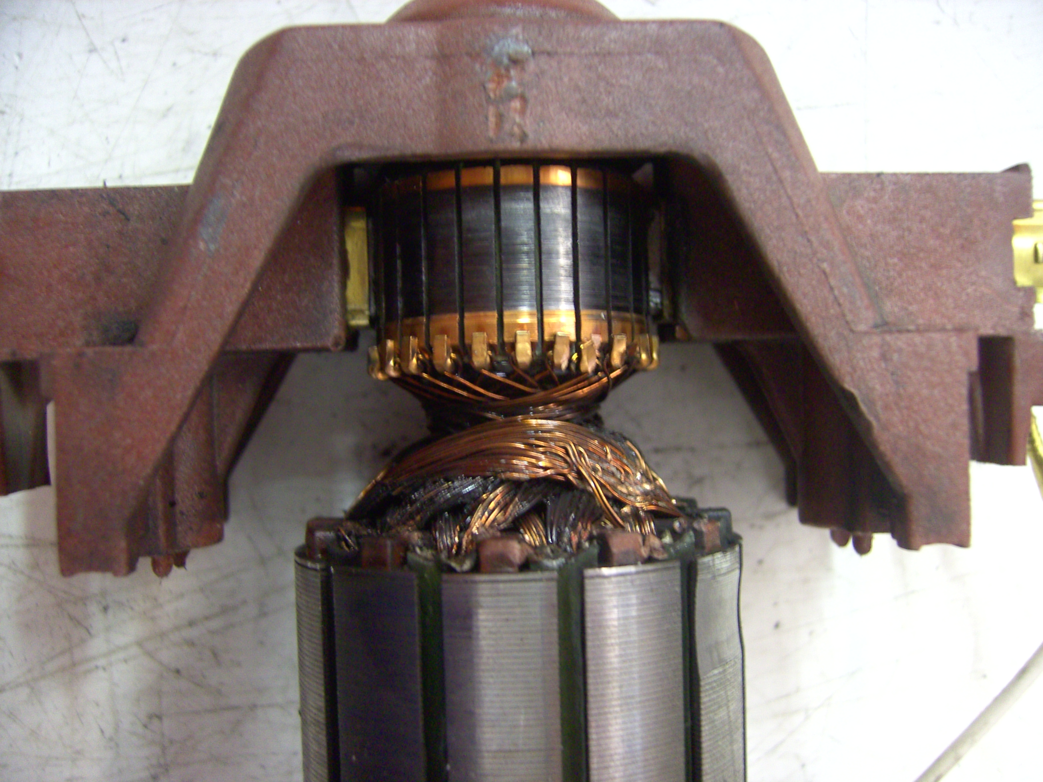 Commutator Universal motor of a vacuum cleaner